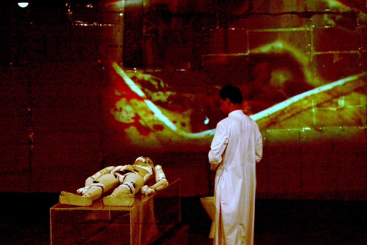 Spinal Cord - 2009 Scenography& Direction Deepan Sivaraman. Produced by Oxygen Theatre Company Kerala